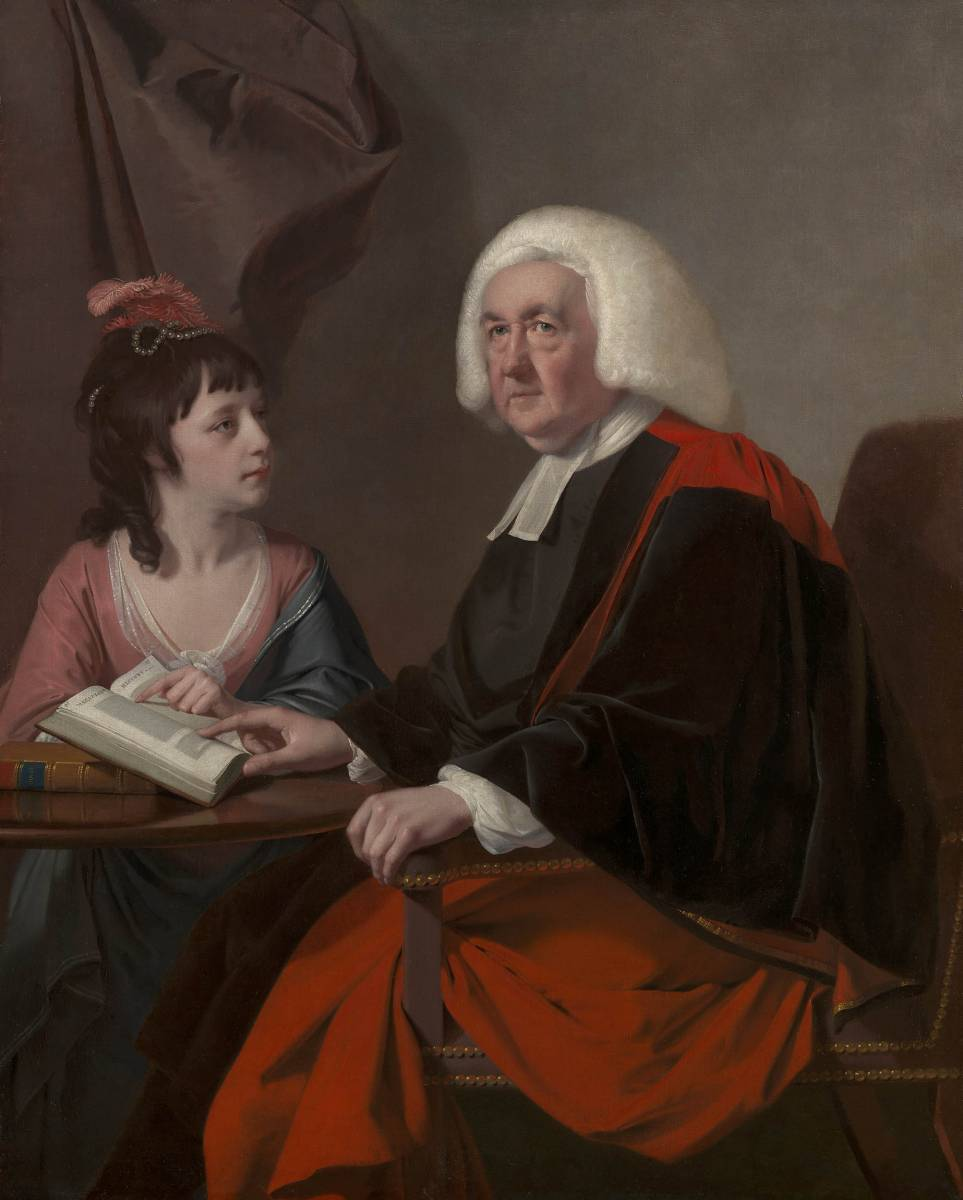 Catherine Sophia Macaulay, daughter of Catharine Macaulay, sitting with Rev. Dr. Thomas Wilson, who invited the mother and her daughter to share with him the Alfred House in Bath. They are shown pointing to a passage in one of Macaulay's volumes of "The History of England".